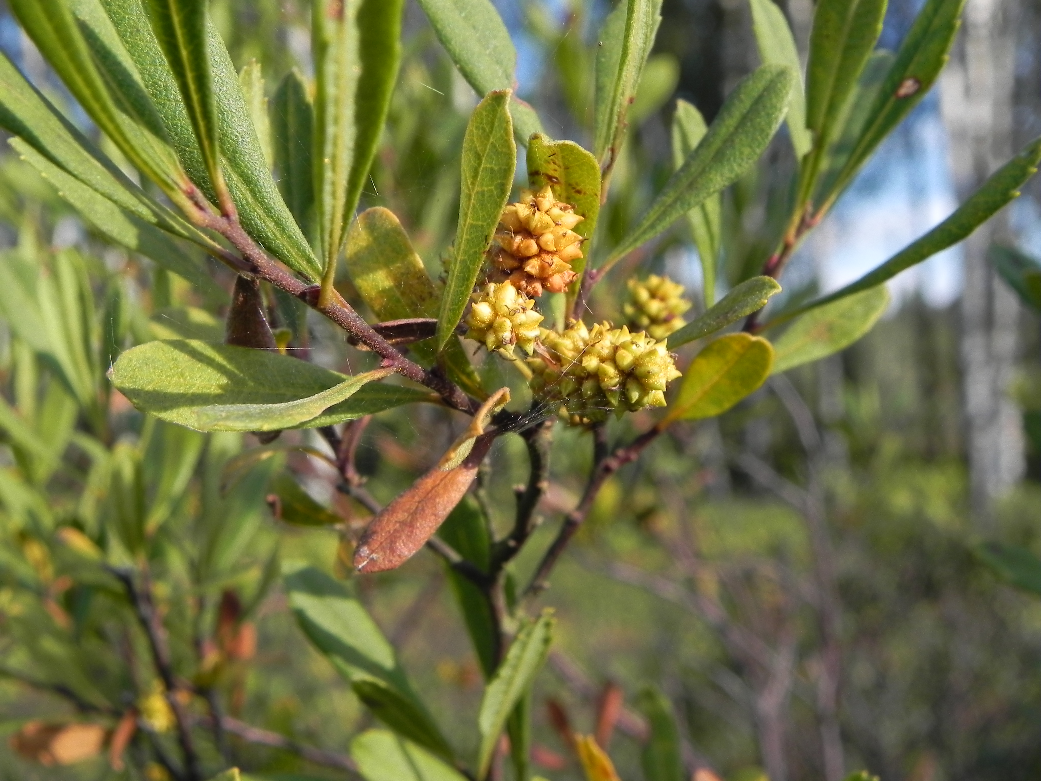 Myrica gale: Female plant, Bornrieth Moor, Lower Saxony, Germany